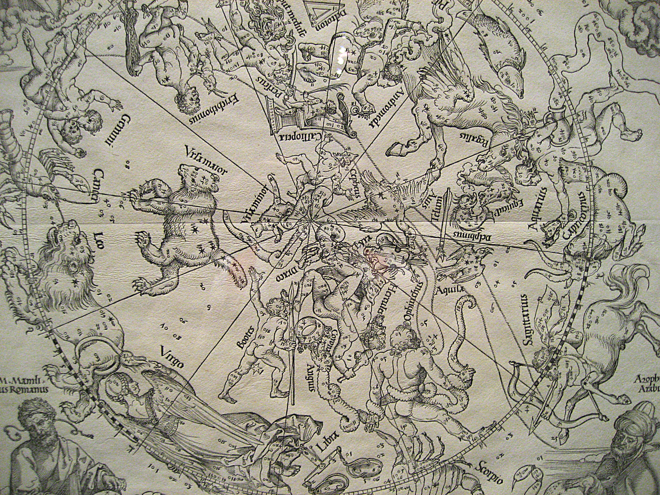 Dürer, Celestial Map of the Northern Sky, 1515, MET, New York City